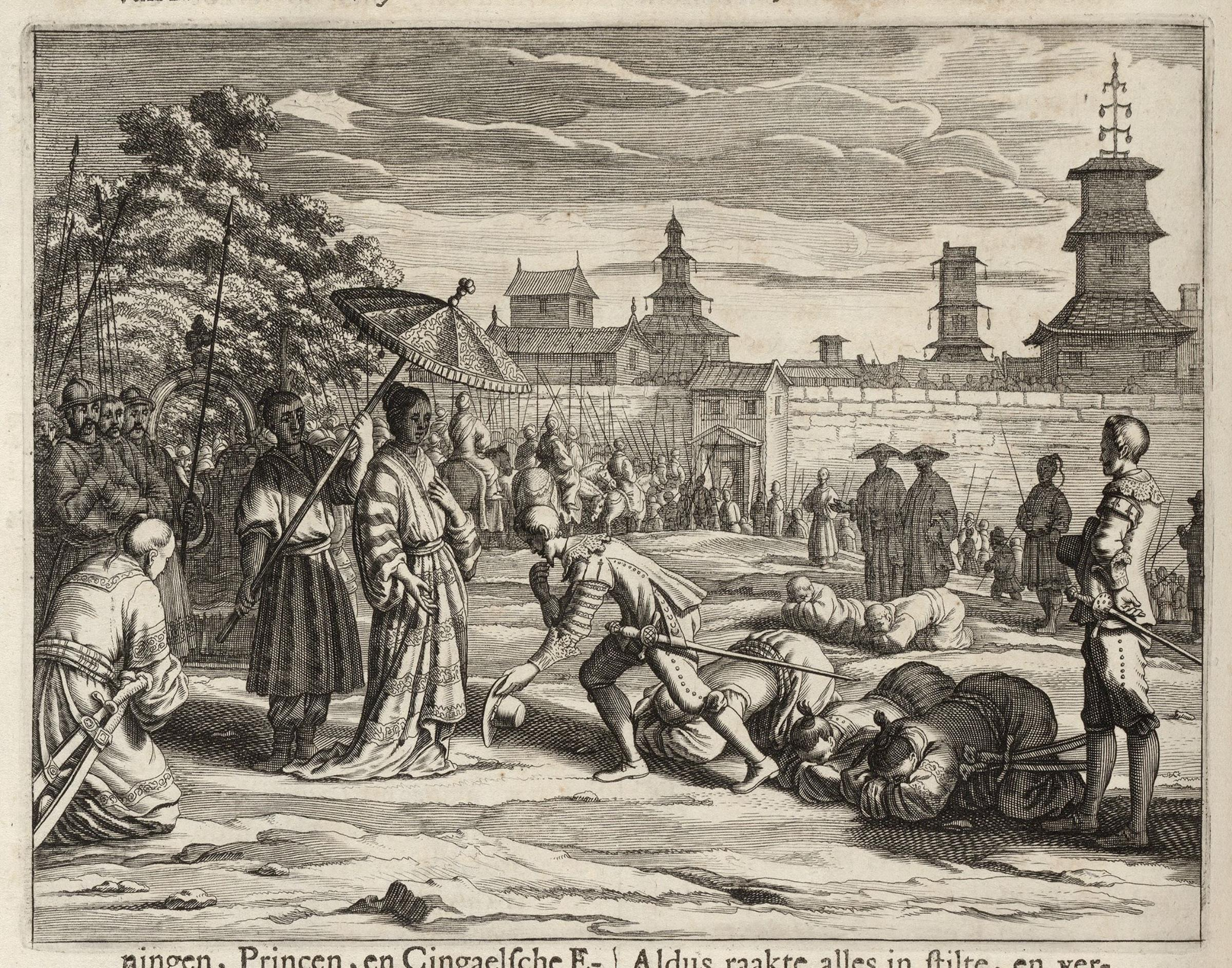 The Portuguese Pedro Lopez welcomes the Empress of Ceylon, Dona Catharina. The Ceylonese monarch Rajasingha, who ruled from 1582 to 1593 (see the remarks alongside: Koninklijke Bibliotheek, inv. nr. 189 A 6 part II, p. 4) had dethroned Dona Catharina's father. After Rajasingha's death the king of Candy, Vimala Dharma Suriya, attempted to fill the power vacuum. But the Portuguese defeated him and installed Dona Catharina as empress.